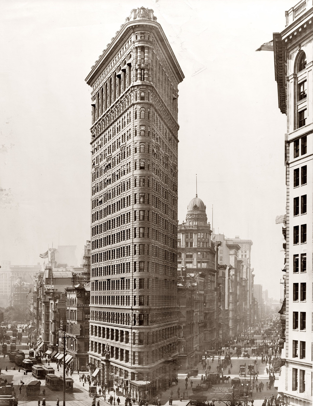 The Flatiron Building, New York City, 1910